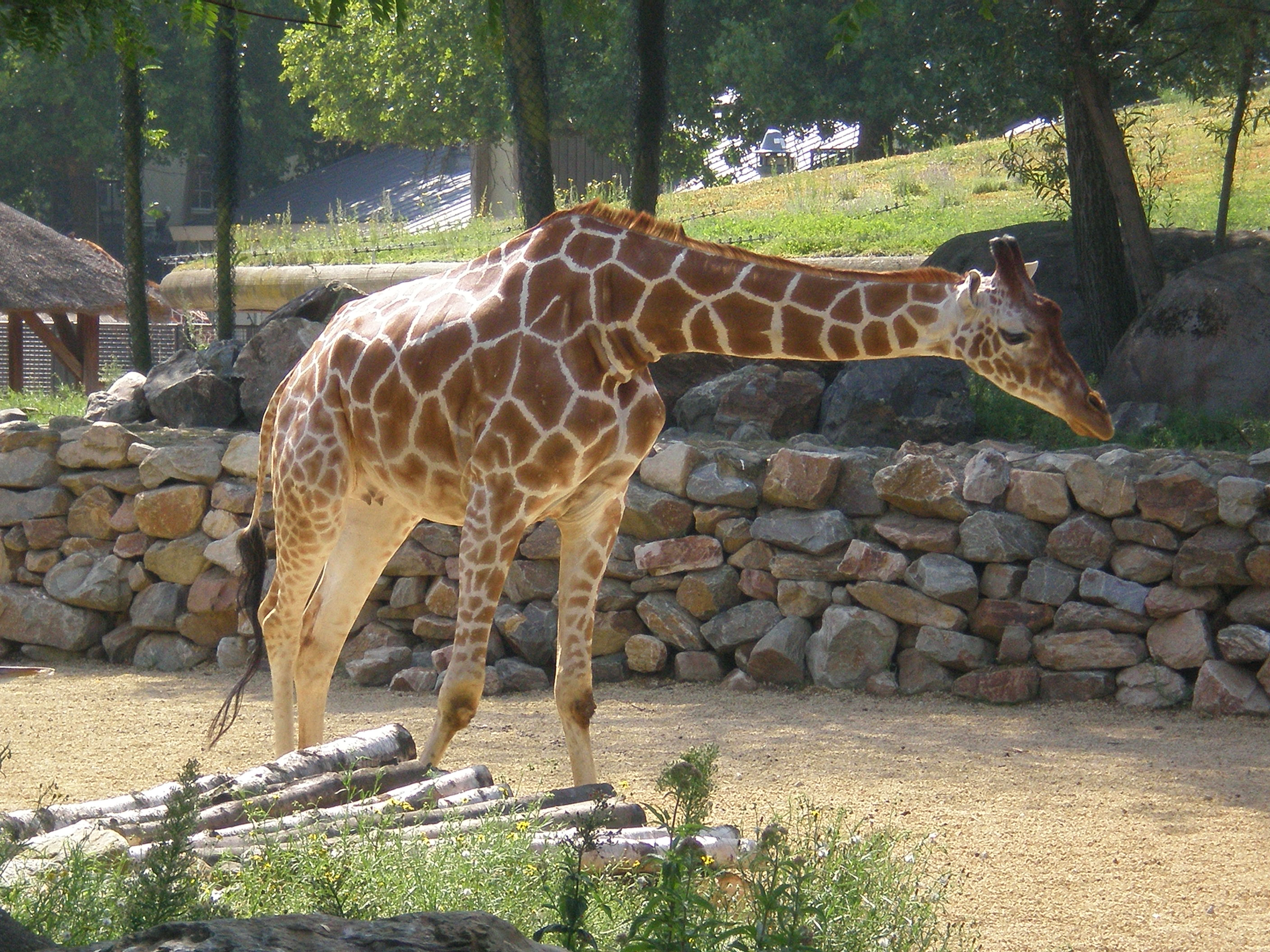 The Reticulated Giraffe (Giraffa camelopardalis reticulata).